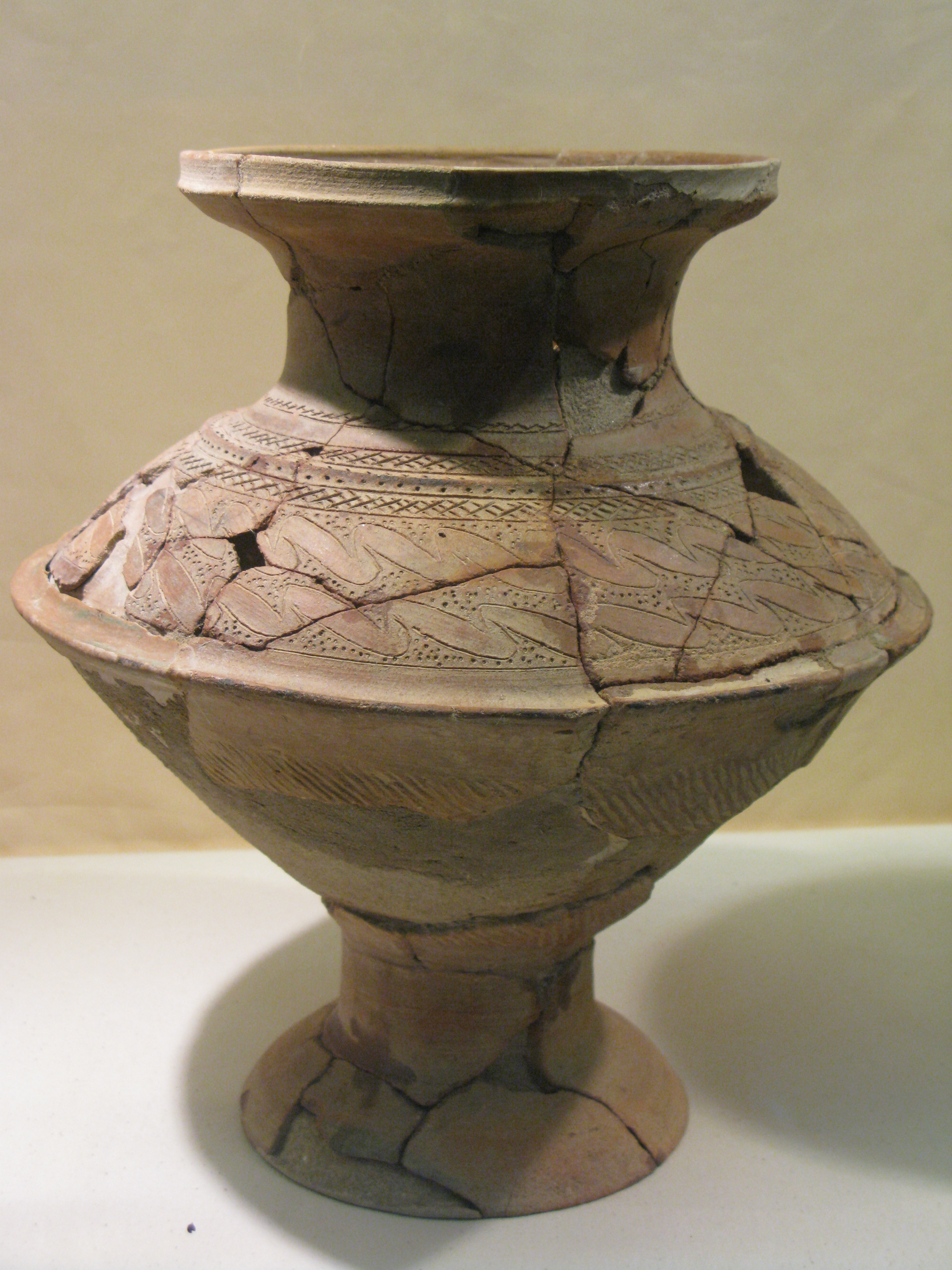 Pottery vase, Sa Huynh Culture, circa 2,500 - 2,000 years B.P.